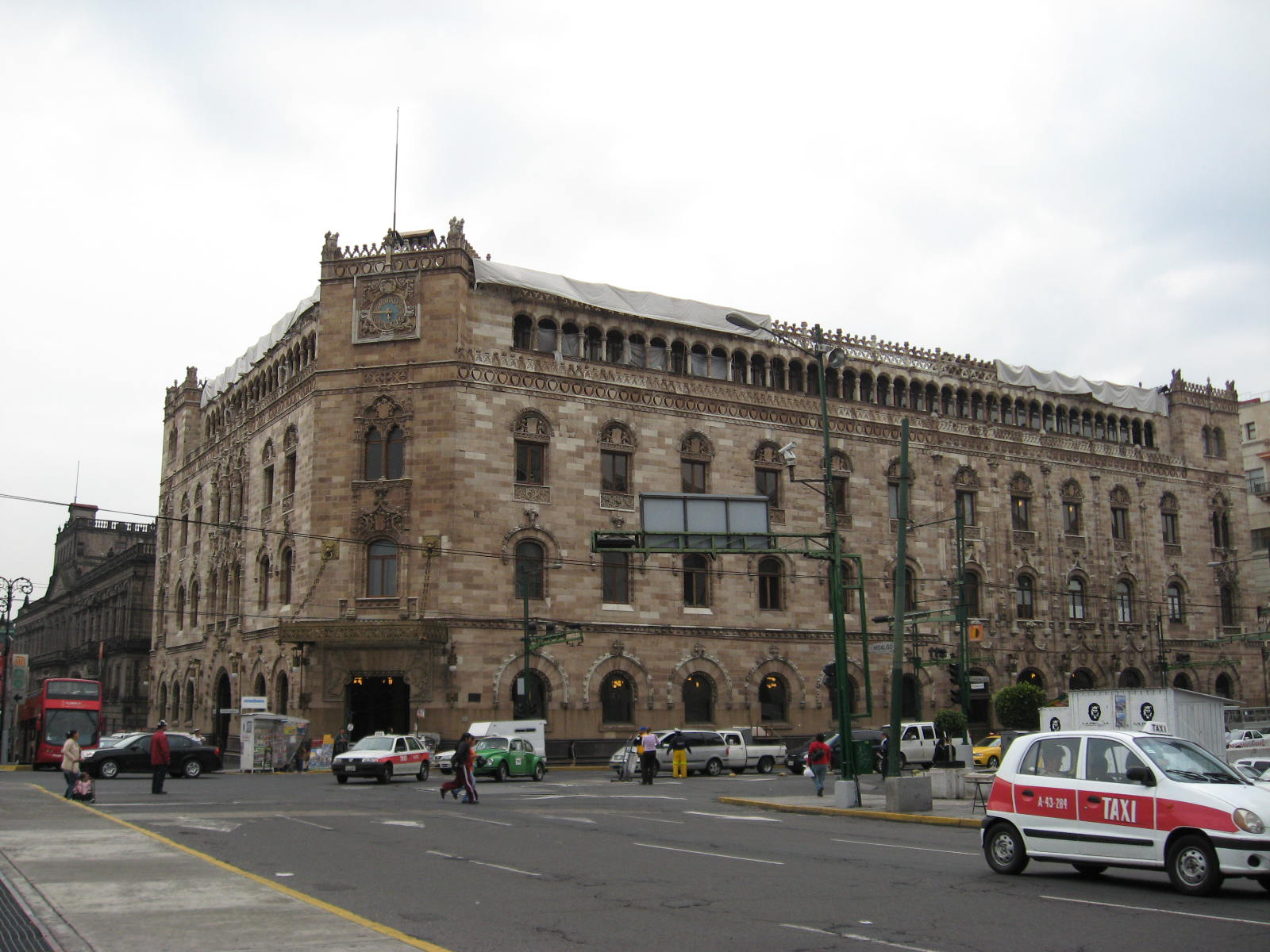 View of the Palacio de Correos in Mexico City from the NW